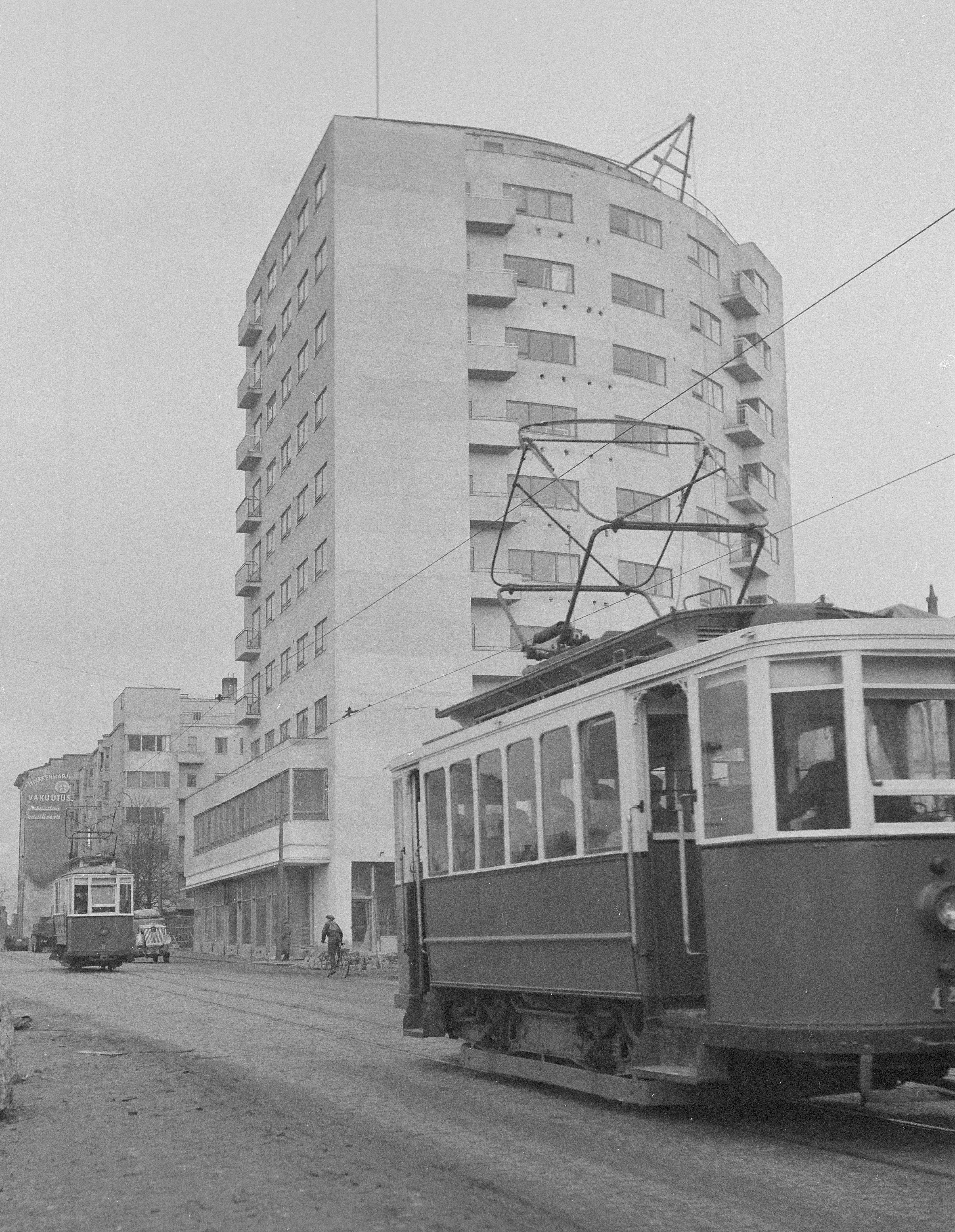 Karjala Insurance Company Building in Vyborg, Finland during the World War II. Designed by architect Olli Pöyry.